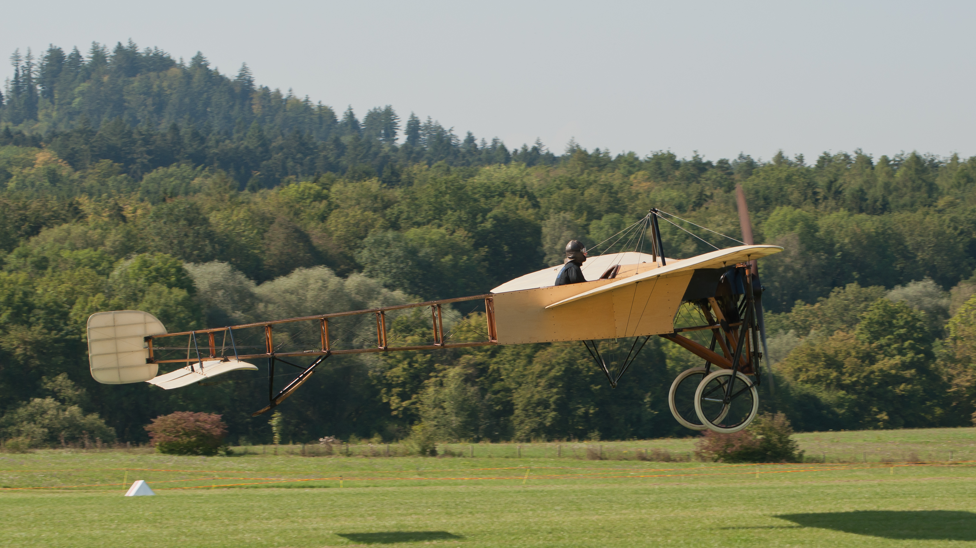 Mikael Carlson's Blériot XI/Thulin A 1910 (first takeoff after restoration: 1991, 7-cylinder Gnôme-Omega 50 hp rotary engine).